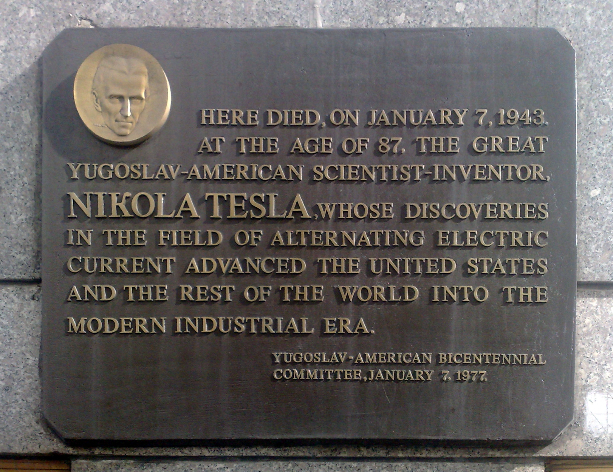 Bronze plaque commemorating Nikola Tesla at the Wyndham New Yorker Hotel reads:"Here died, on January 7, 1943, at the age of 87, the great Yugoslav-American scientist-inventor, Nikola Tesla, whose discoveries in the field of alternating electric current advanced the United States and the rest of the world into the modern industrial era.Yugoslav-American BicentennialCommittee, January 7, 1977."